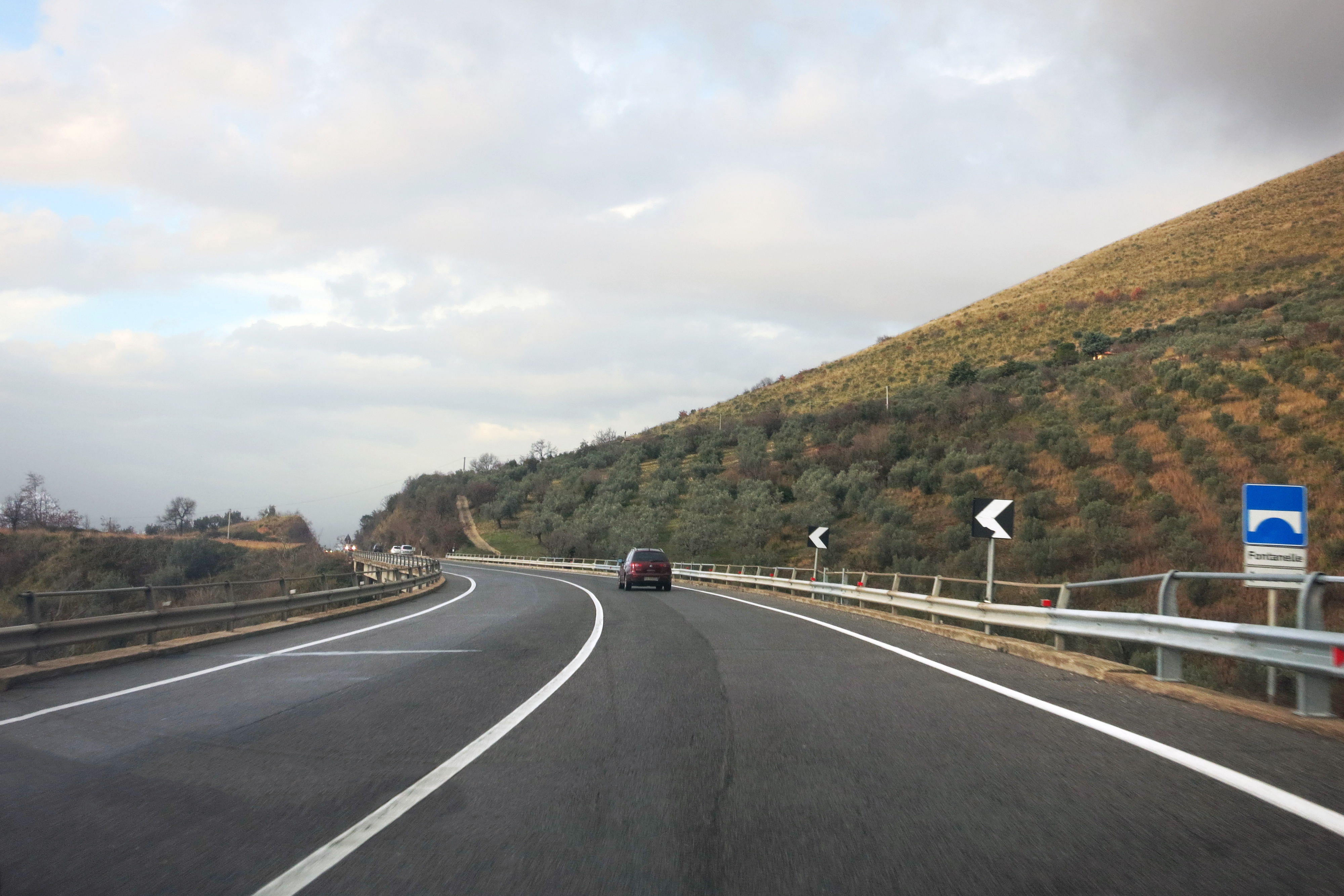 Italian State Road n. 4 Via Salaria, lane heading to Rome